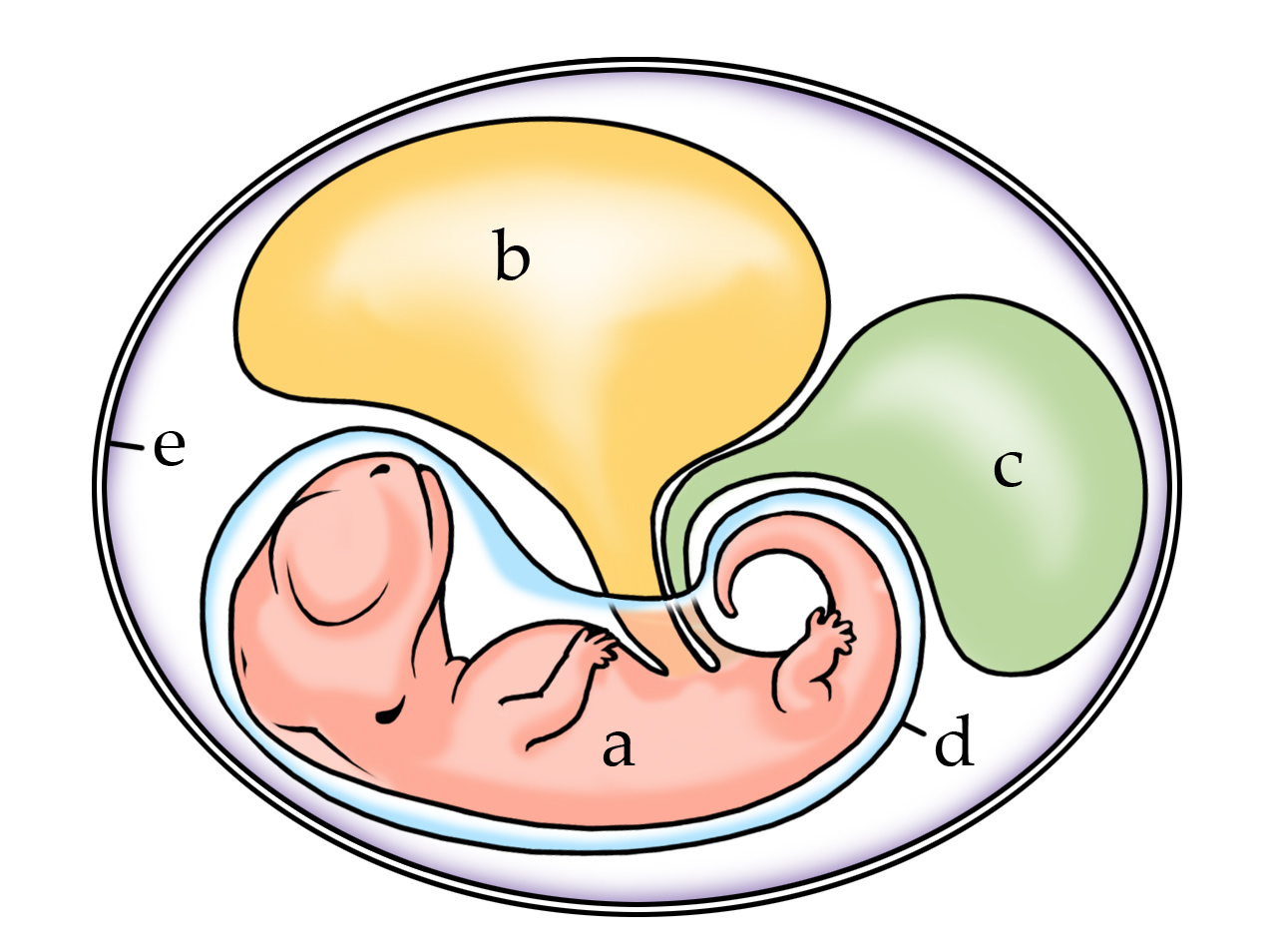 Idealized amniote embryo. Legend: a=embryo, b=yolk, c=allantois, d=amnion, e=chorion